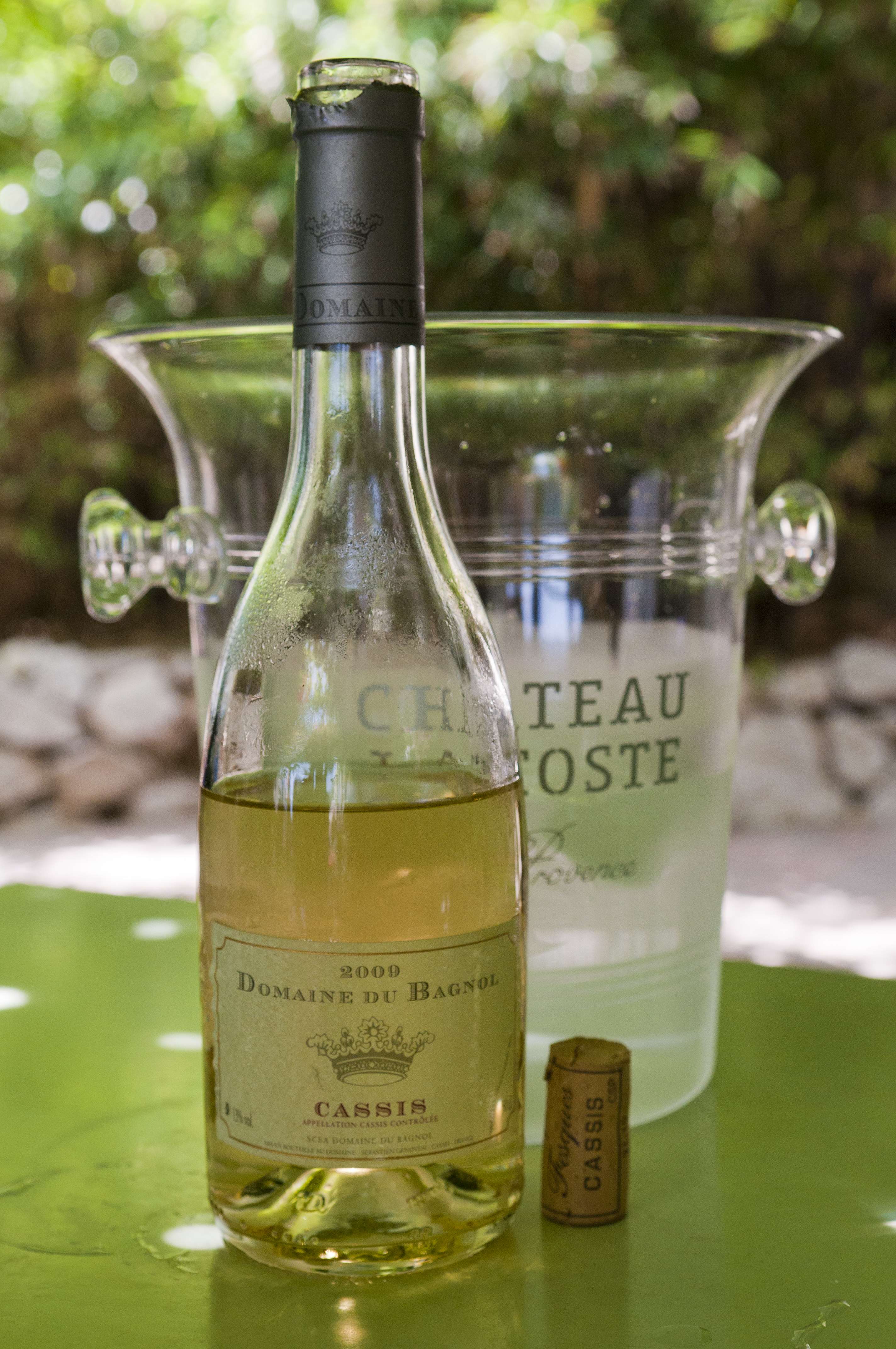 White French wine from the Provence wine region of Cassis made from a blend of Clairette, Marsanne, Ugni blanc, Sauvignon blanc and Bourboulenc.